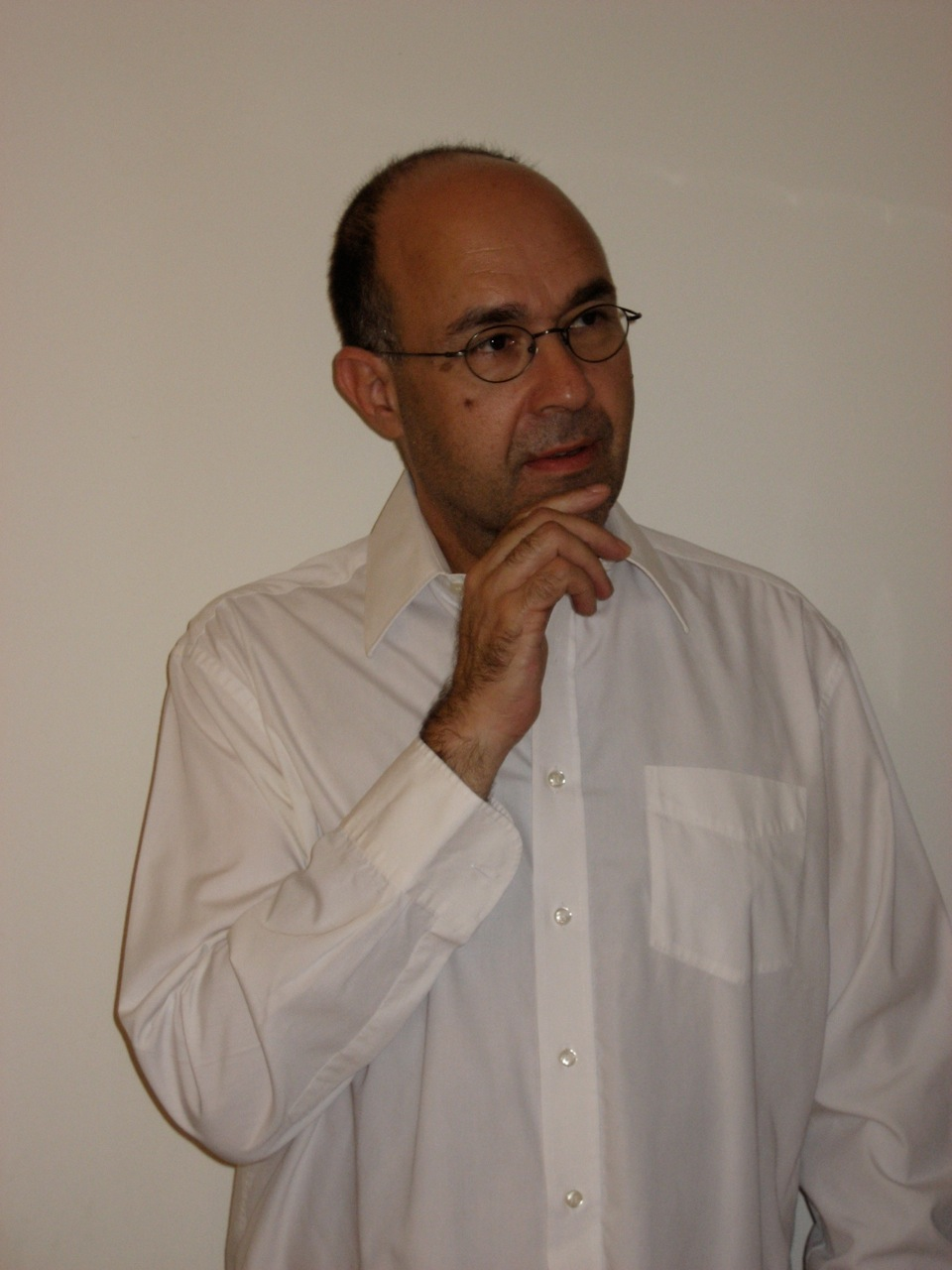 Shmuel Moran, Adv.